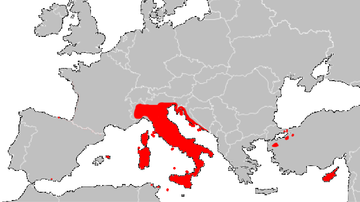 Podarcis siculus range map.